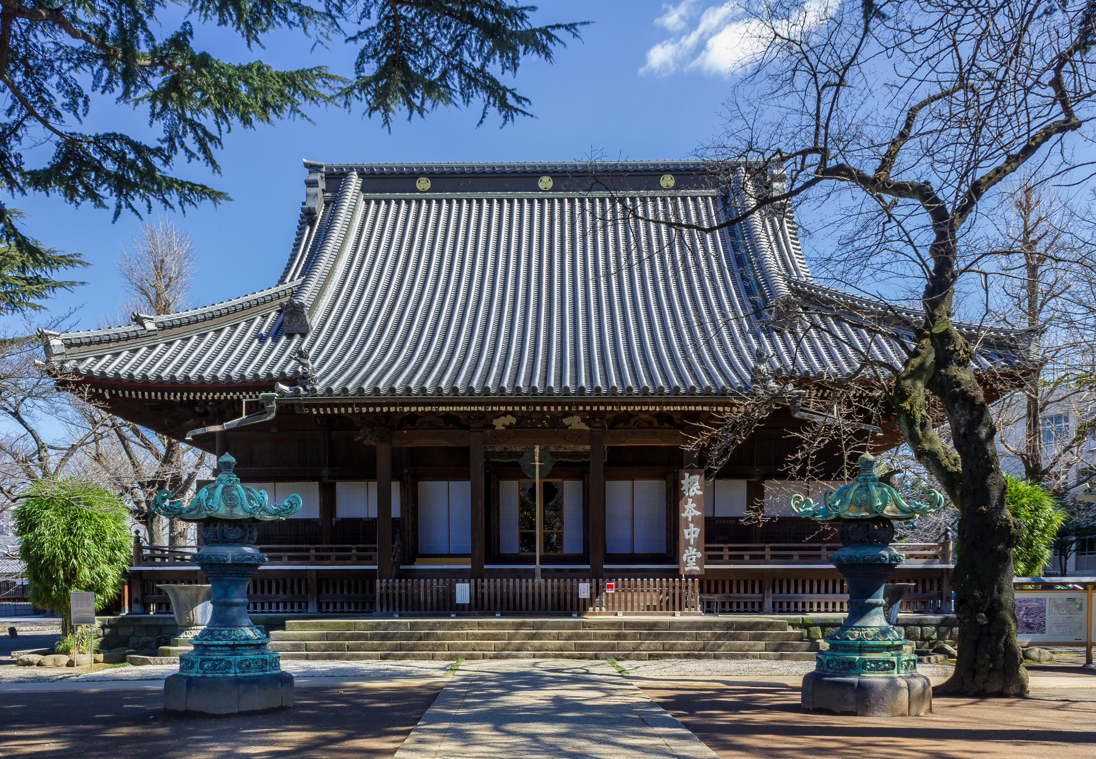 Main Hall of Kan'ei-ji Temple in Taitō-ku, Tokyo.